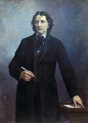 Knee-length portrait of France Prešeren.